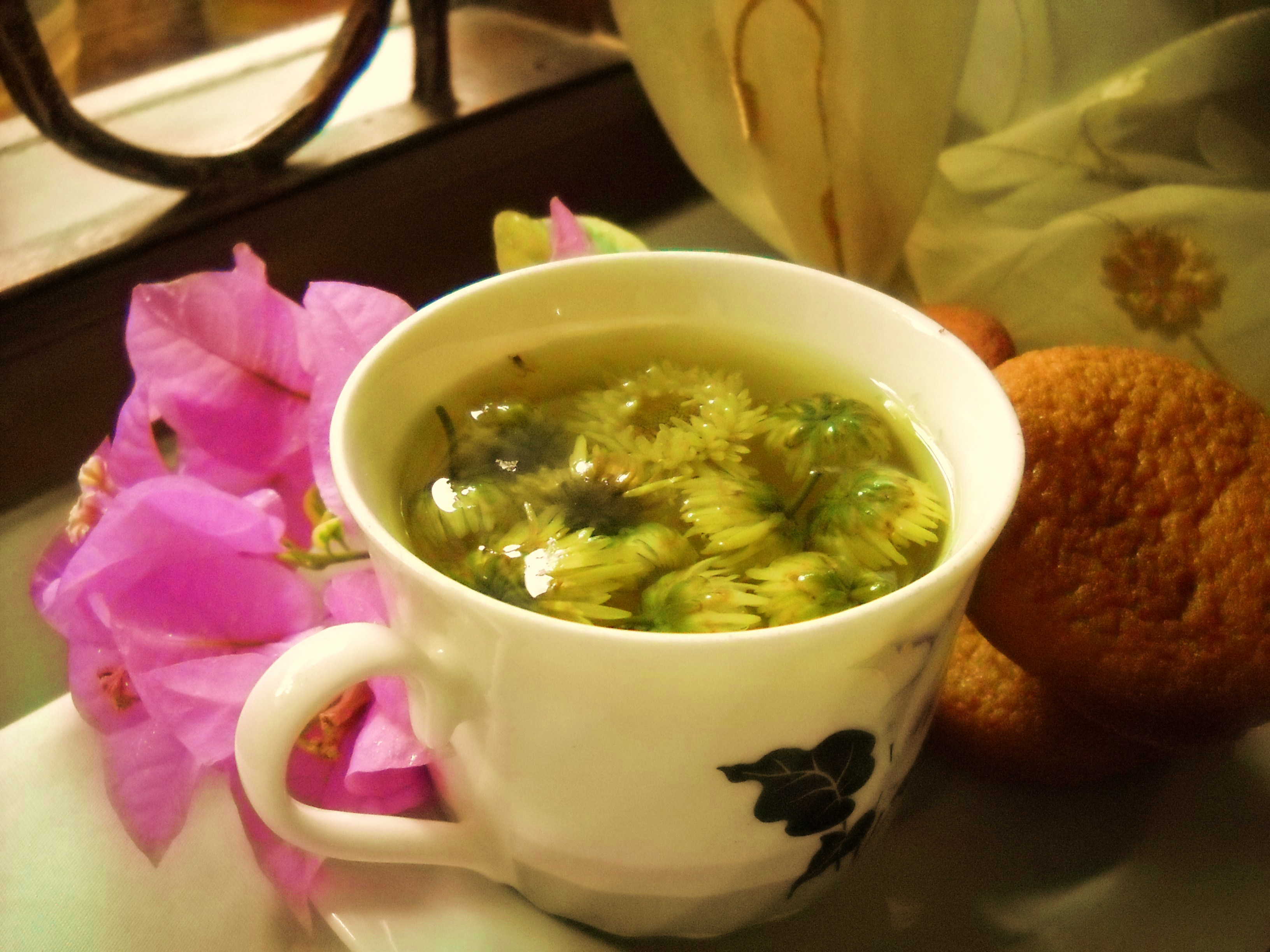 Chrysanthemum tea, (Bahasa Indonesia: teh bunga seruni)